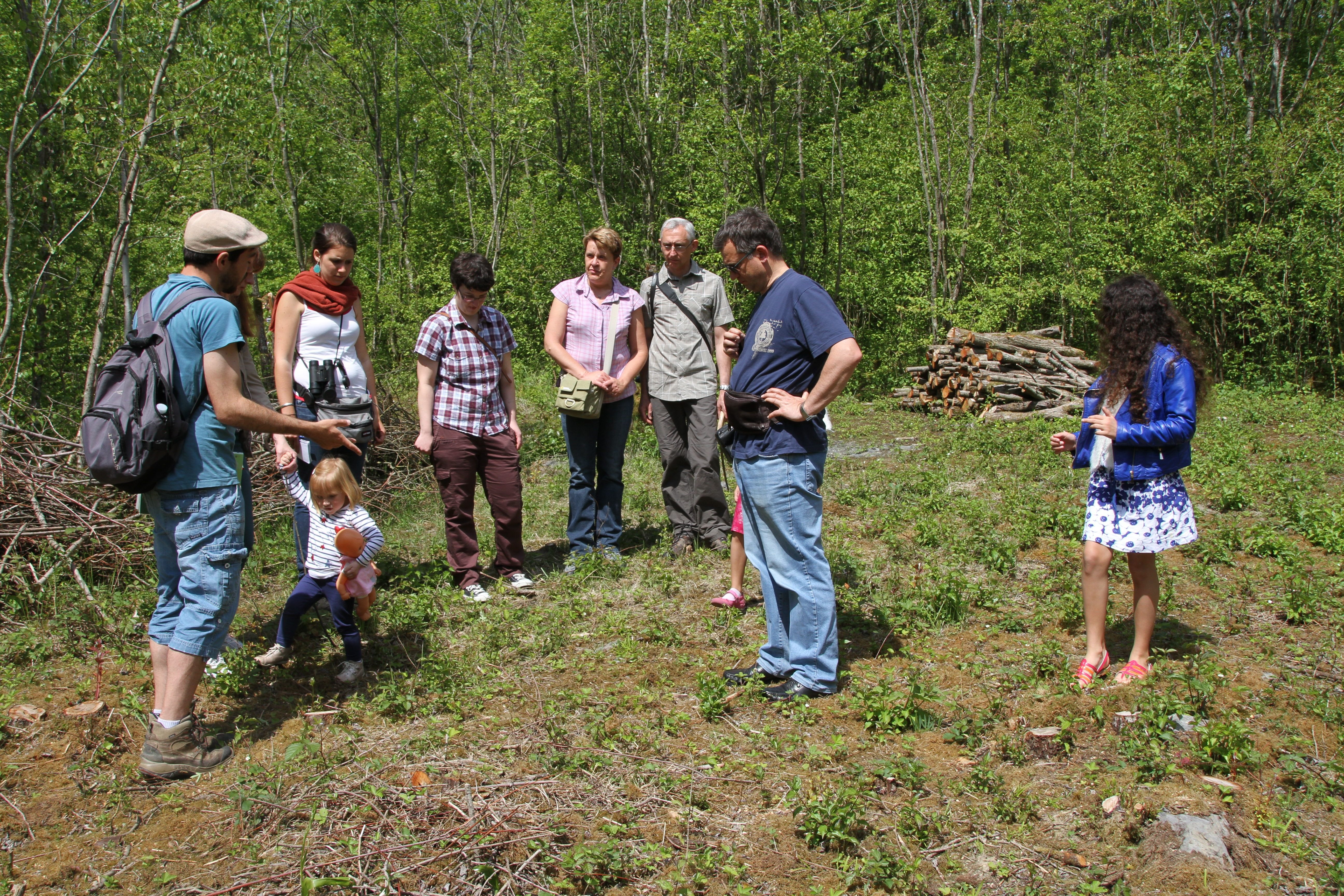 Guided outing in the Carrière des Nerviens Regional Nature Reserve